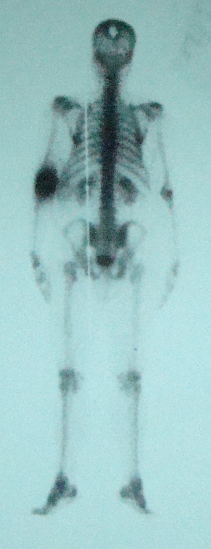 Bone scintigraphy made with 99mTc demonstrating the highly enhanced tumor borders and the left elbow affected by psoriatic arthritis.